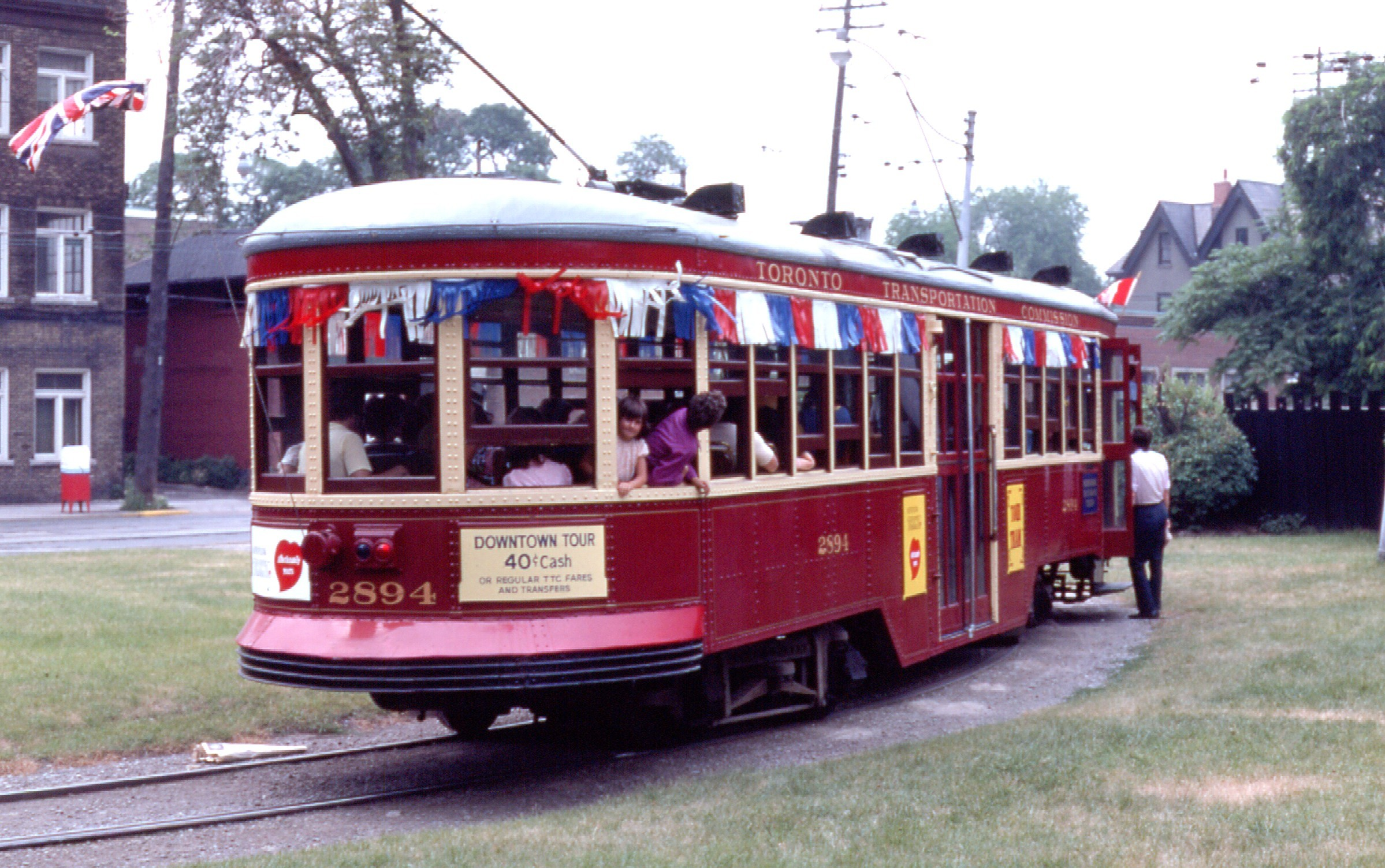 The Toronto Transit Commission keeps an old Peter Witt streetcar for excursion service. This slide was taken in July, 1975. This turning loop is now incorporated into a retail and office building.